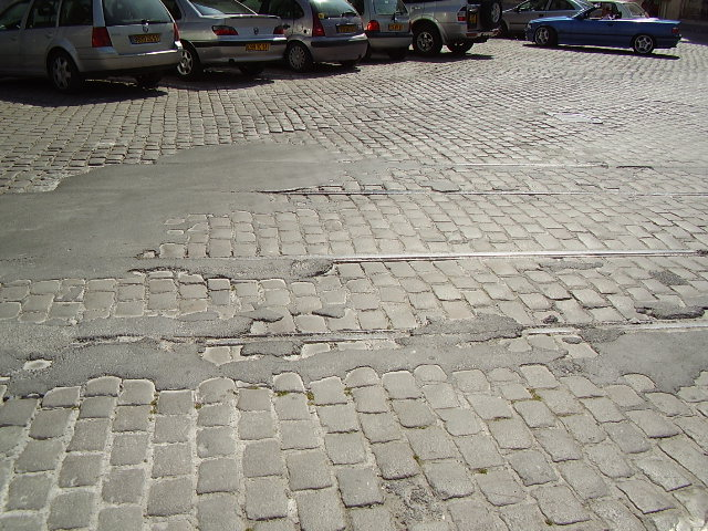 Old tramway rails in Reims France